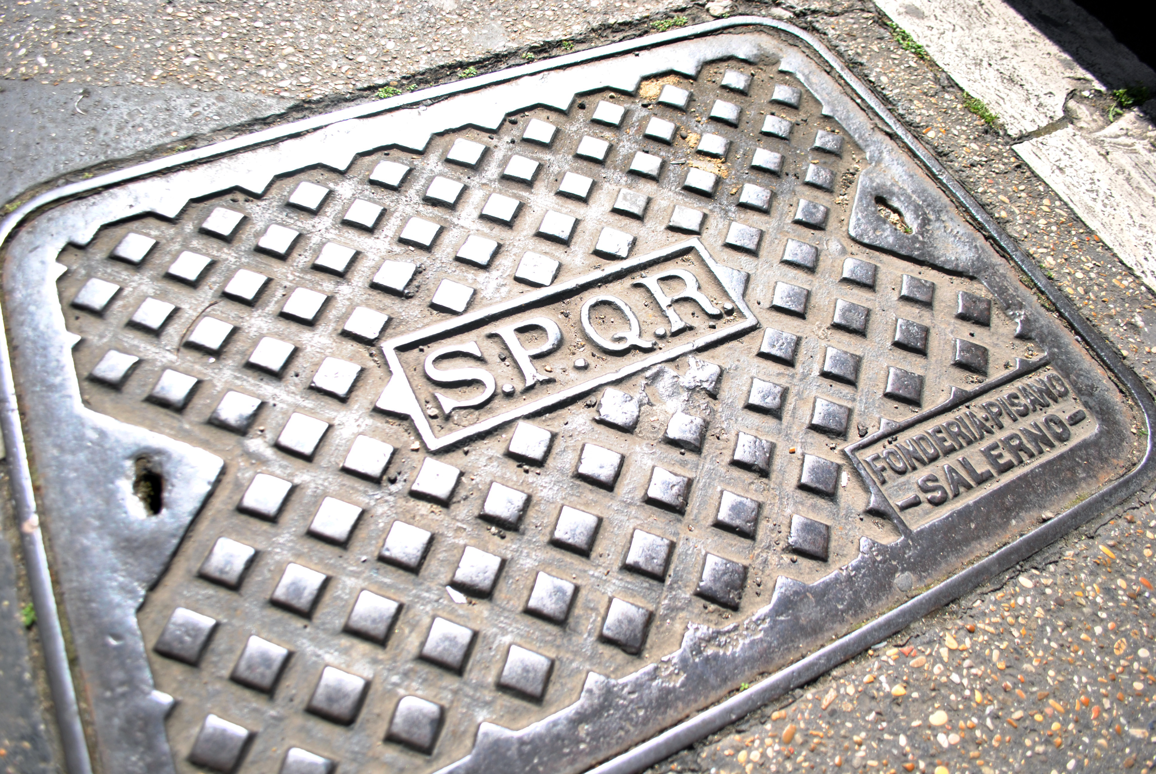 Manhole cover with "SPQR" inscription and "Fonderia Pisano -Salerno-" in Rome, Italy.